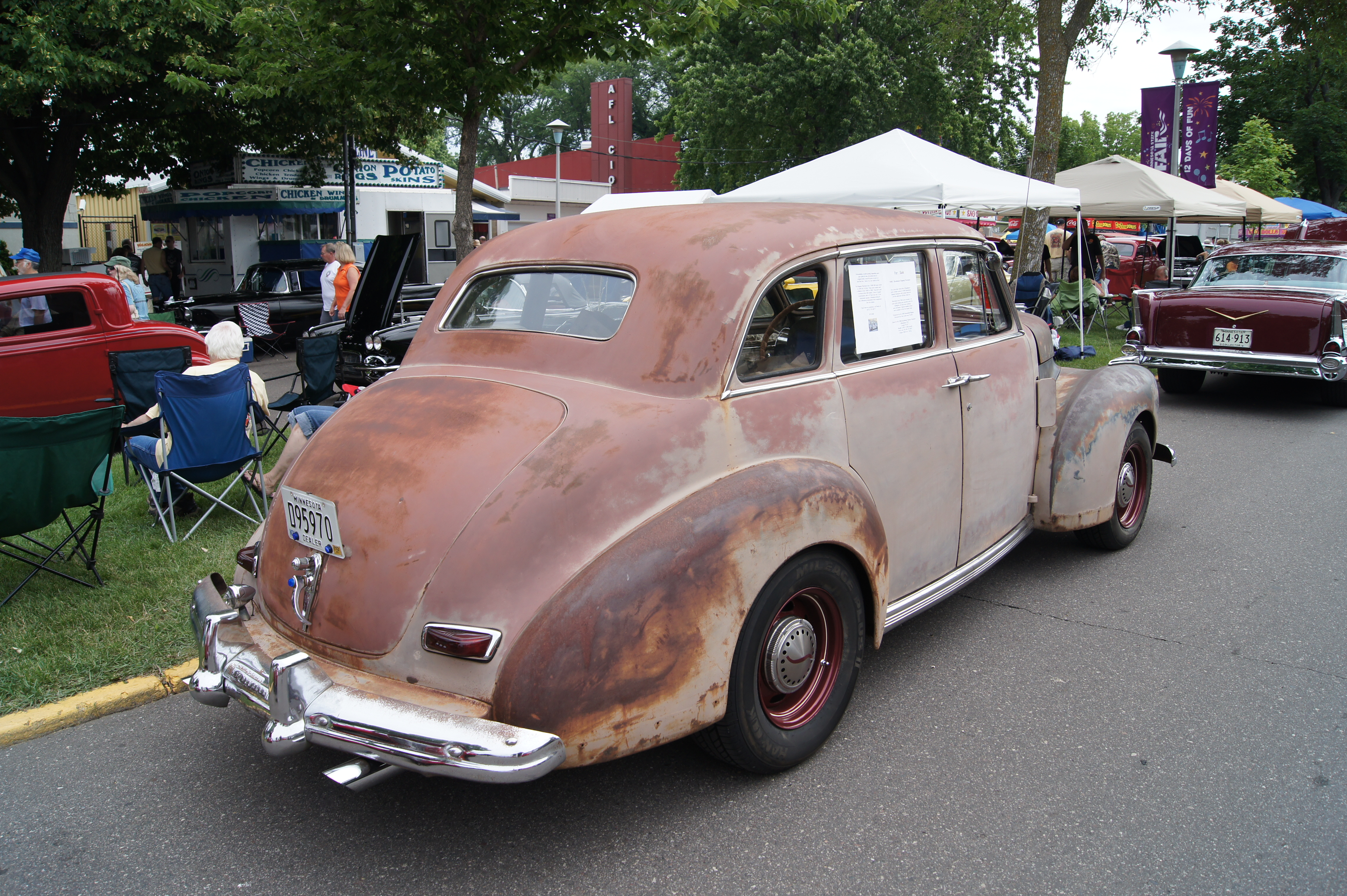 Minnesota Street Rod Association 39th Annual "Back to the Fifties" June 2012 Minnesota State Fairgrounds St. Paul MN